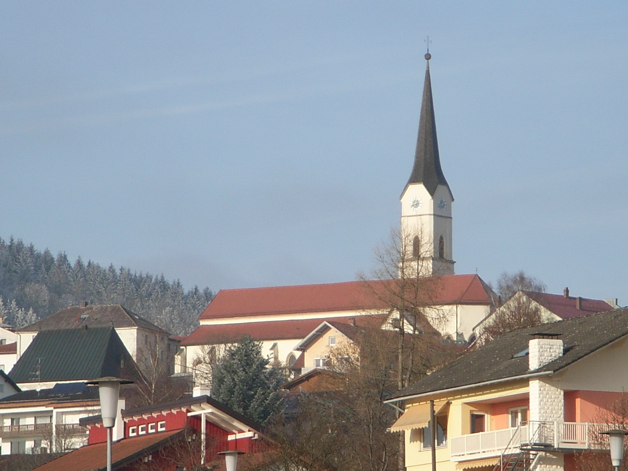 Schönberg (Lower Bavaria), view of St Margaret Parish Church from south-east.